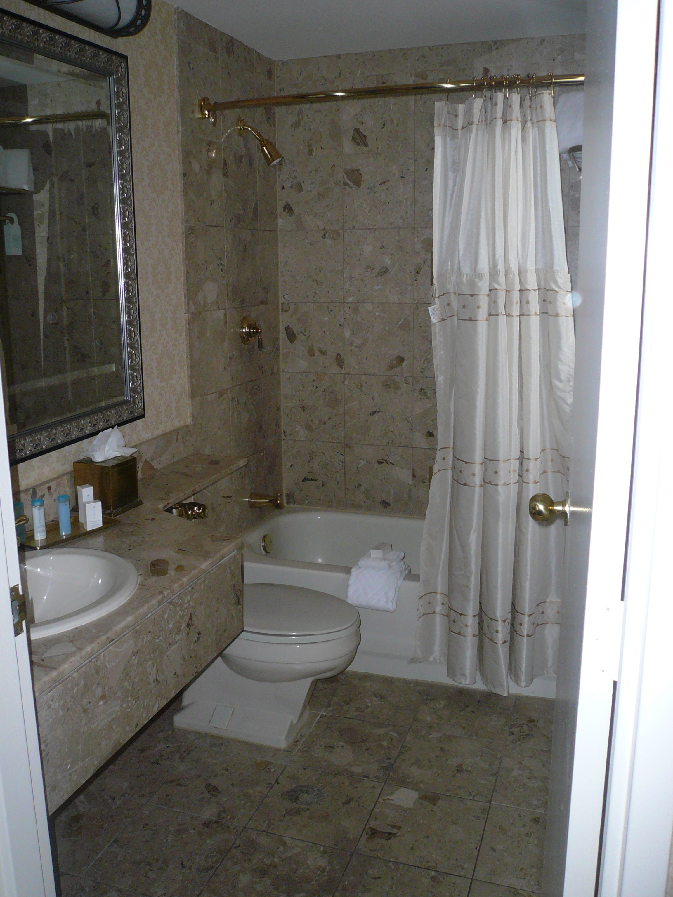 Chicago Hilton, Bathroom